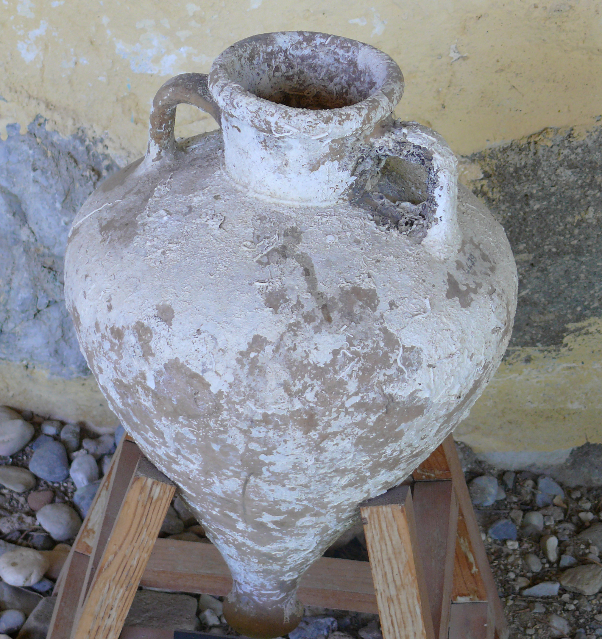 Samos amphora kept at Bodrum castle (Turkey). Samos is a Greek island in the North Aegean sea, off the Ionian coast of Turkey. In classical antiquity the island was a centre of Ionian culture and luxury, renowned for its Samian wines.